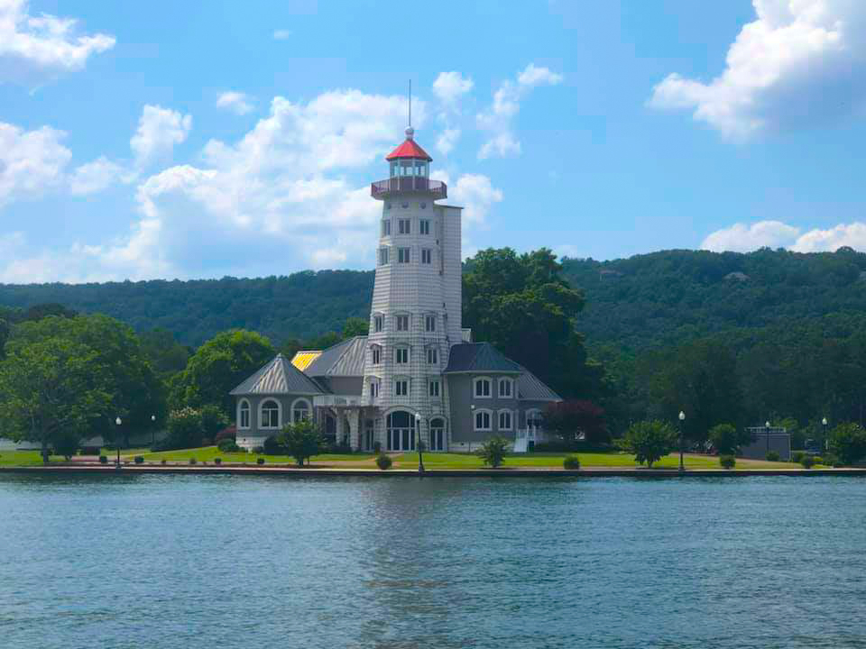 Lake Guntersville Lighthouse in Alabama.